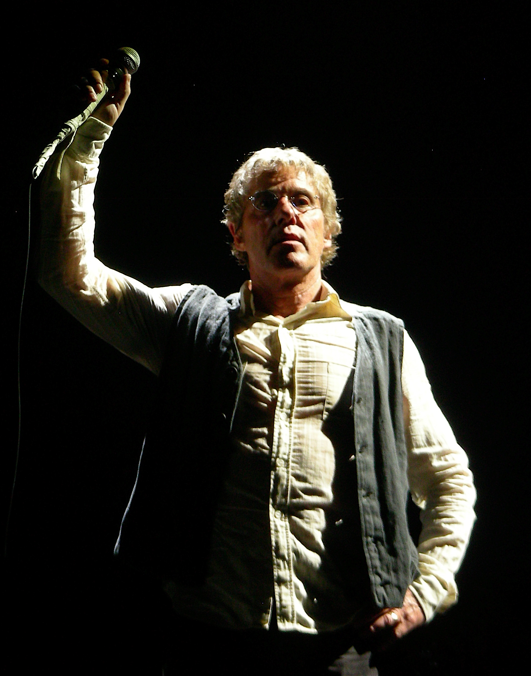 The Who, Philadelphia PA, Oct. 26, 2008.